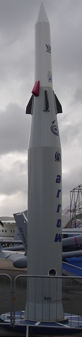 Arrow missile in Paris Air Show 2007 (cropped)